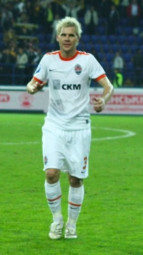 Tomáš Hübschman, a Czech football player, defender for Shakhtar Donetsk.